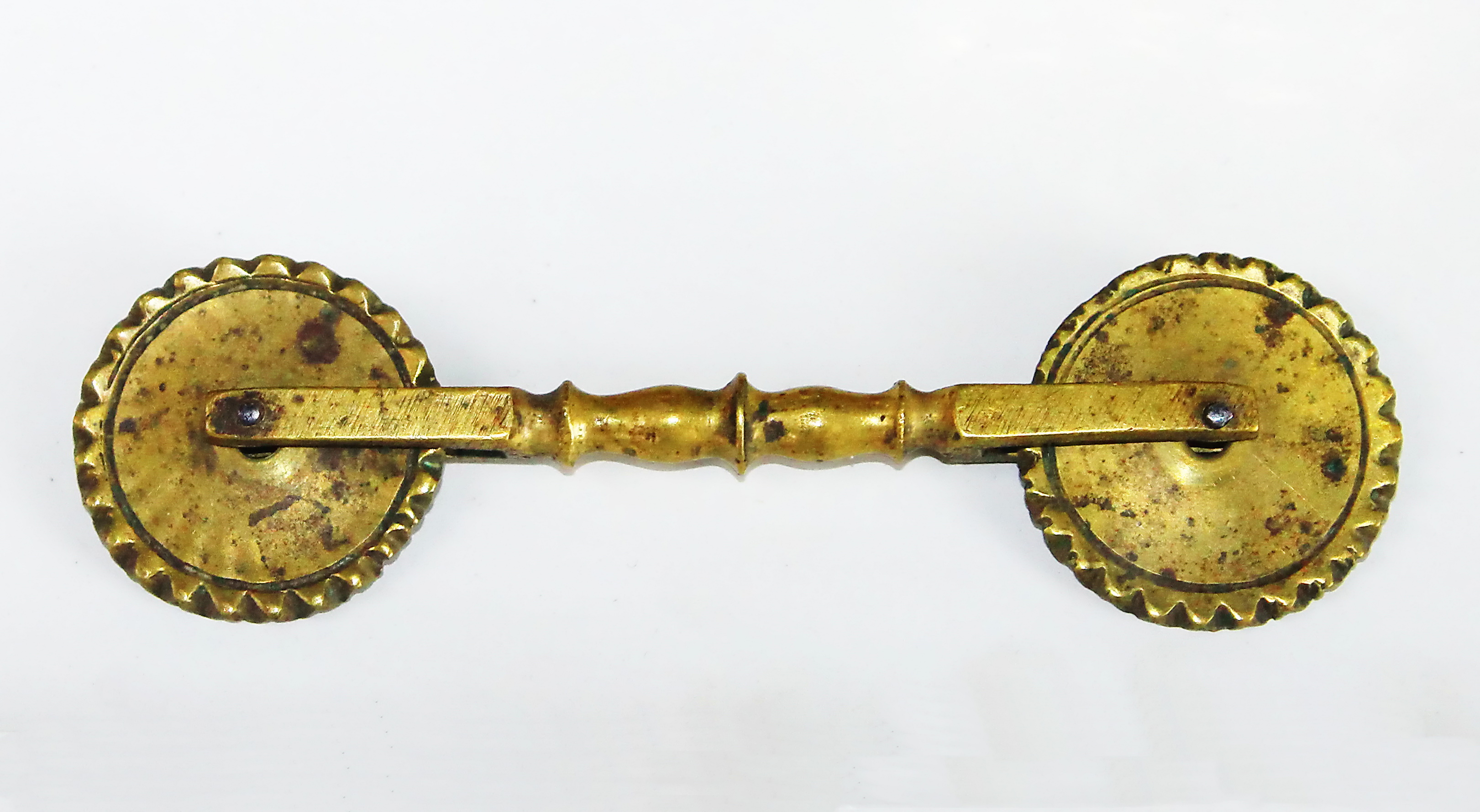 Radla tool located in Museum of Science and Technology Belgrade.